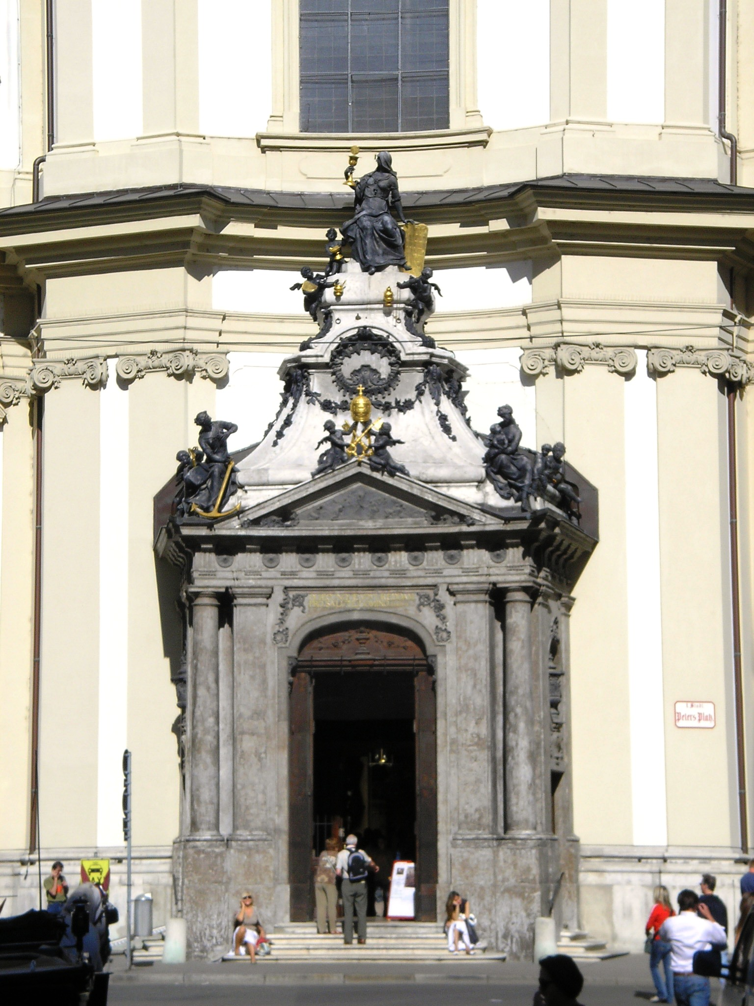 Image of the Peterskirche (St. Peter's Church) in Vienna. This was one of Empress Elisabeth of Austria's favourite churches.